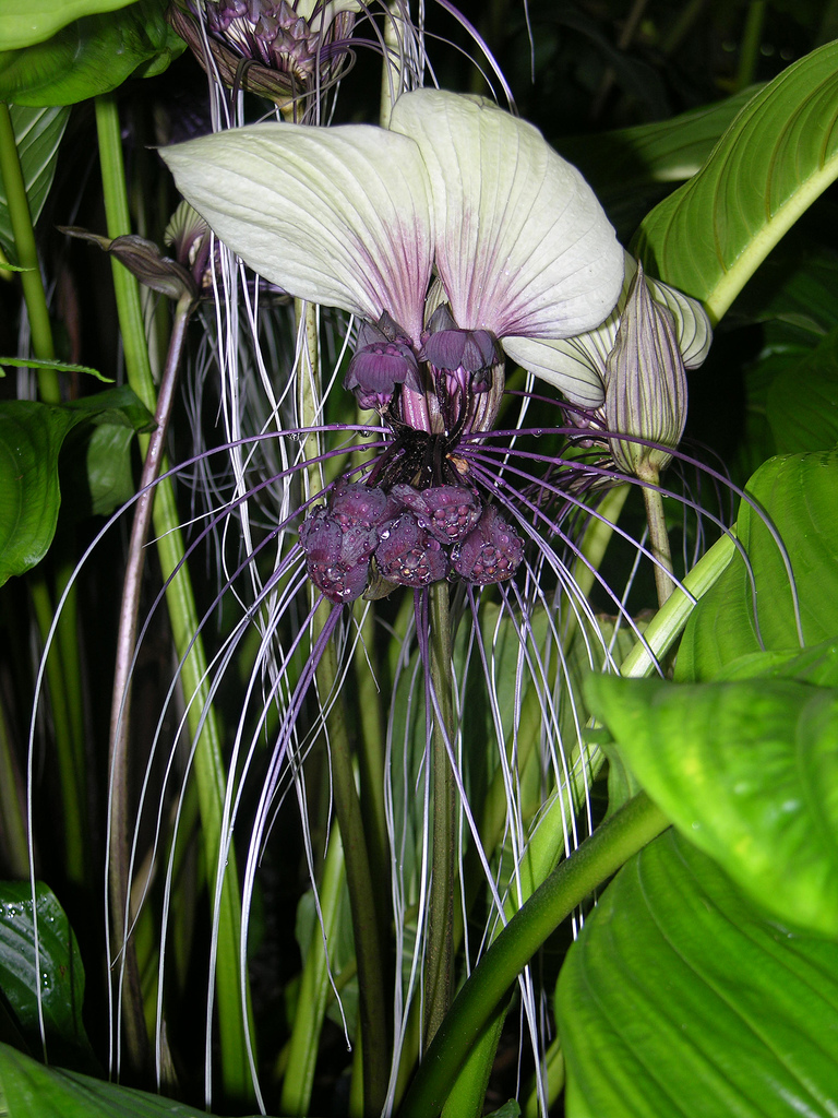 Tacca integrifolia at the Fairchild Tropical Botanic Garden, Miami, FL, USA